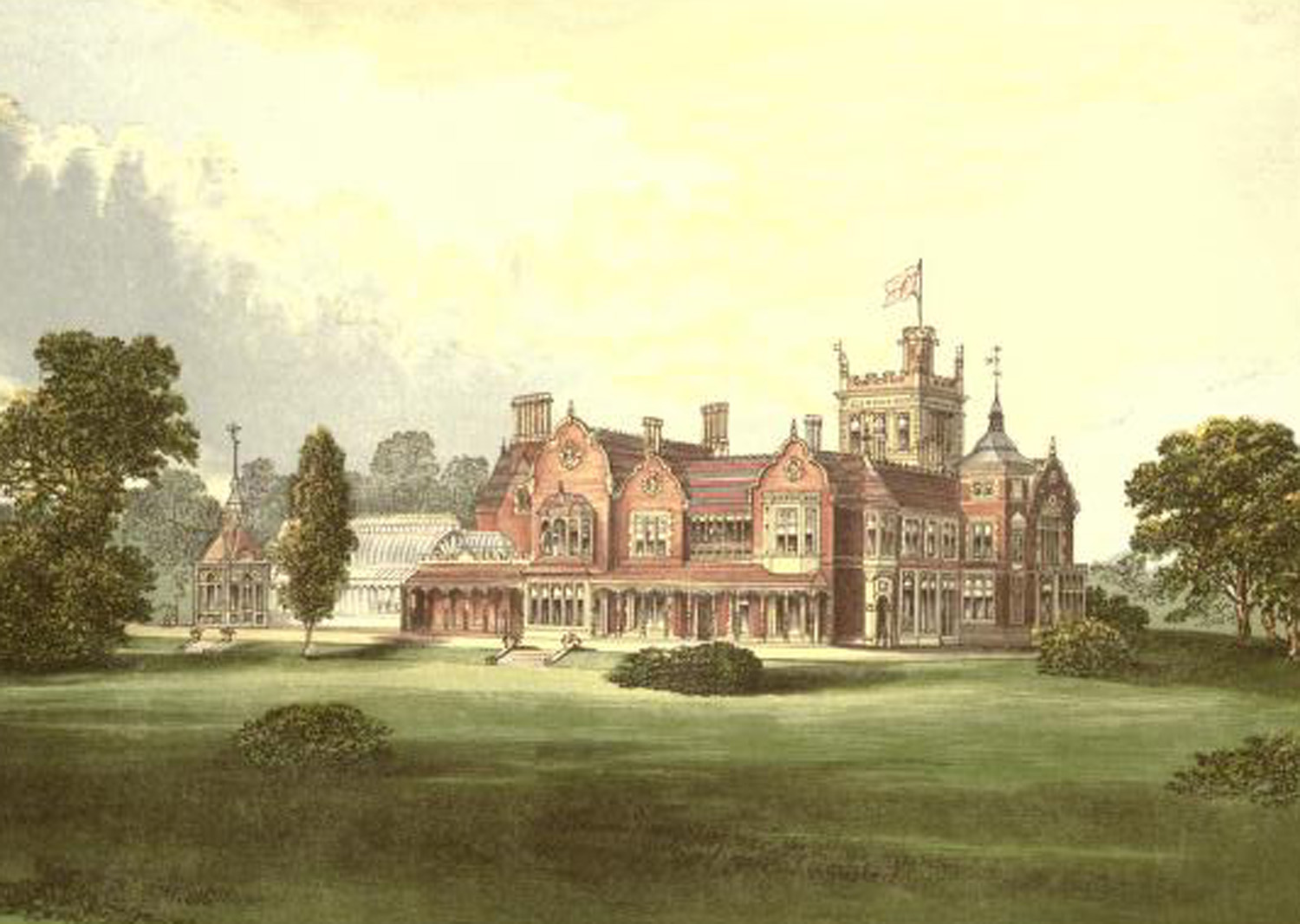 An coloured engraving of Caen Wood Towers circa 1880. This house is now Athlone House, Highgate, UK